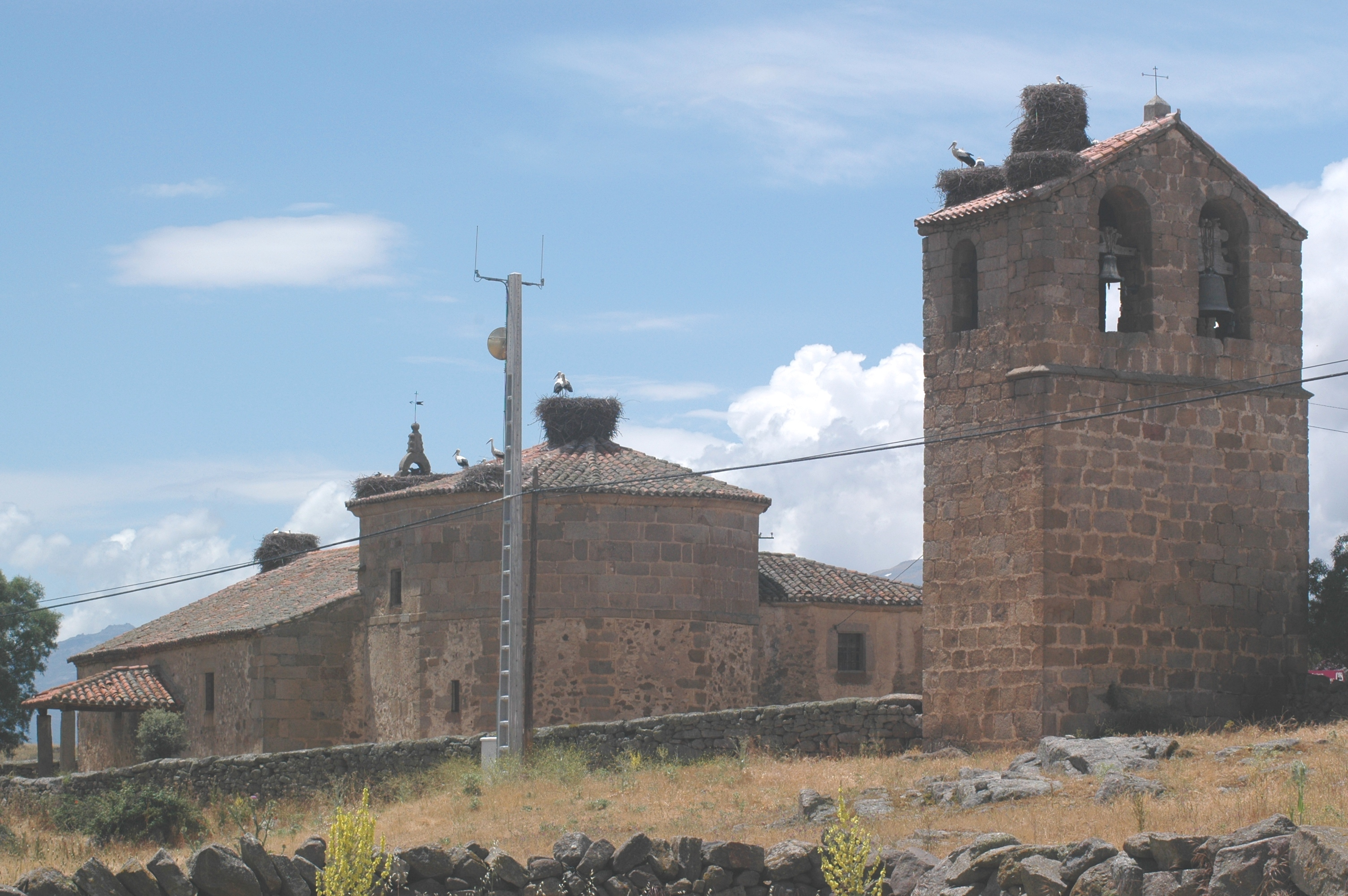 Storks nesting on the roofs of the church of Santa María de los Caballeros, Province of Ávila, Castilia y Leon, Spain